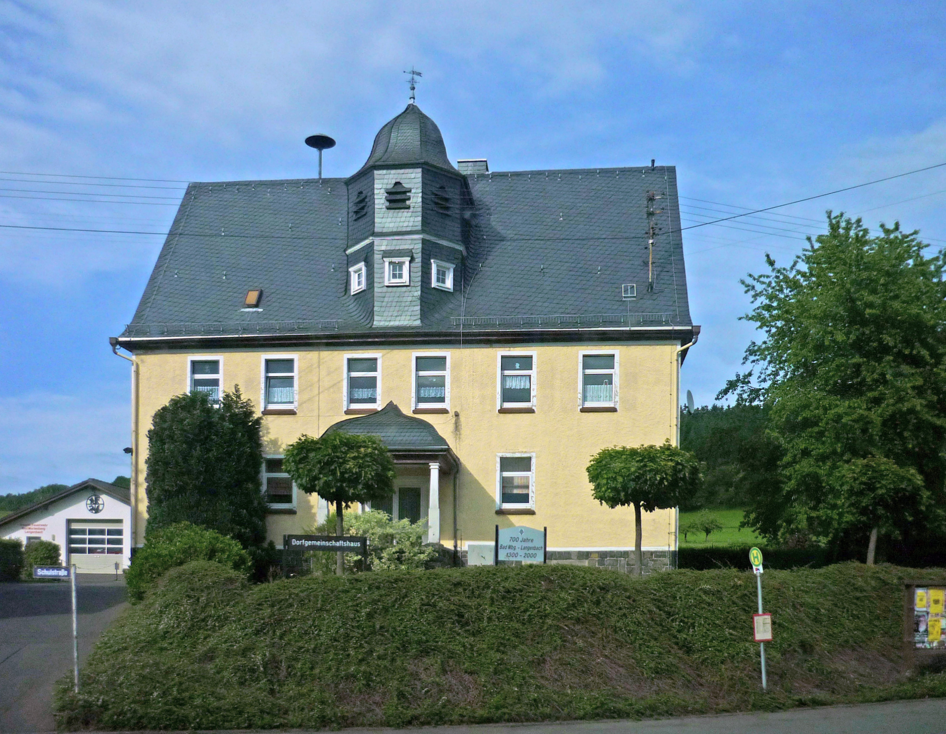 Old school at Langenbach near Bad Marienberg (Westerwald)